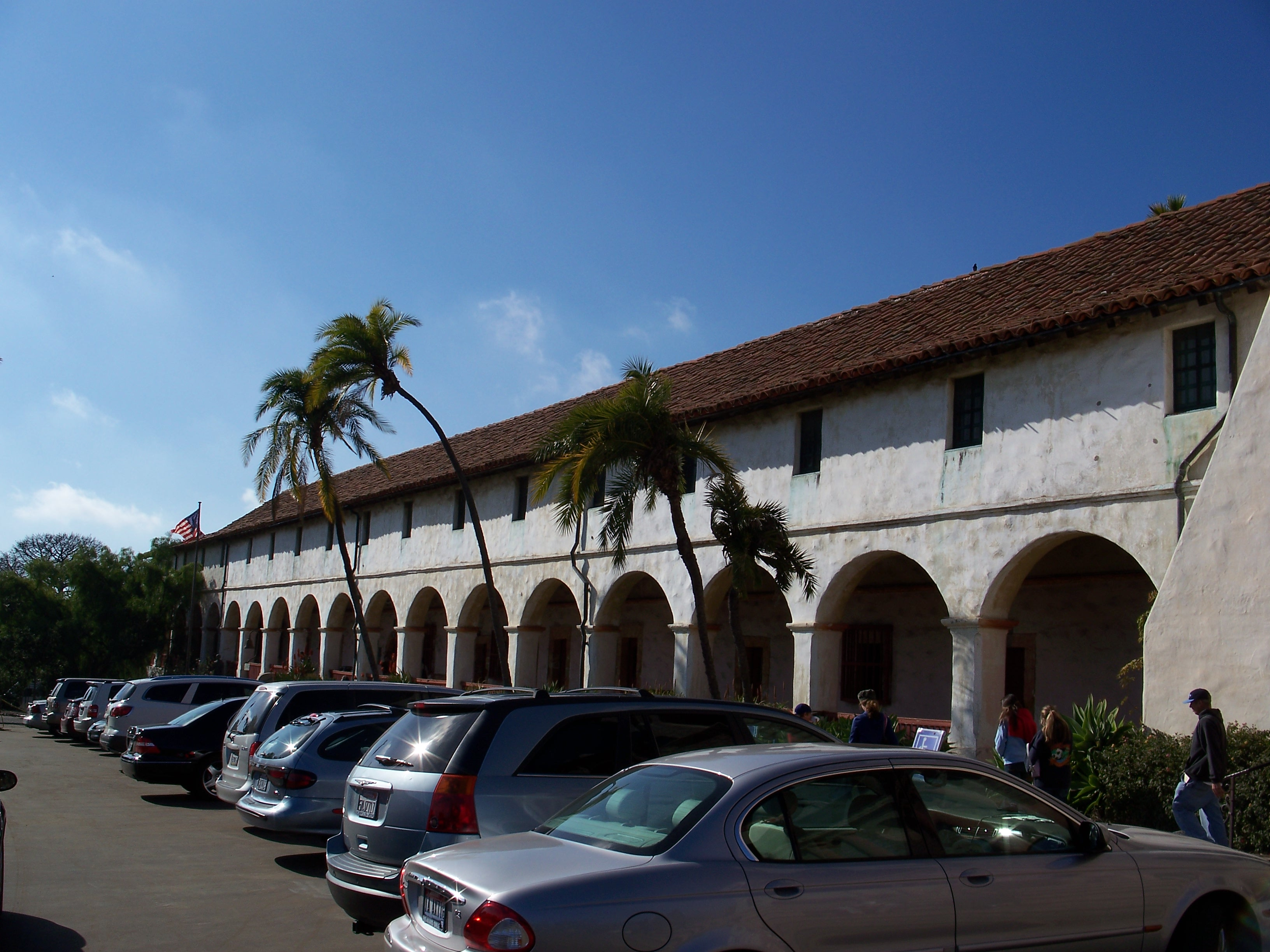 Facade and arcade of Mission Santa Barbara. 2201 Laguna Street. Santa Barbara, California, USA